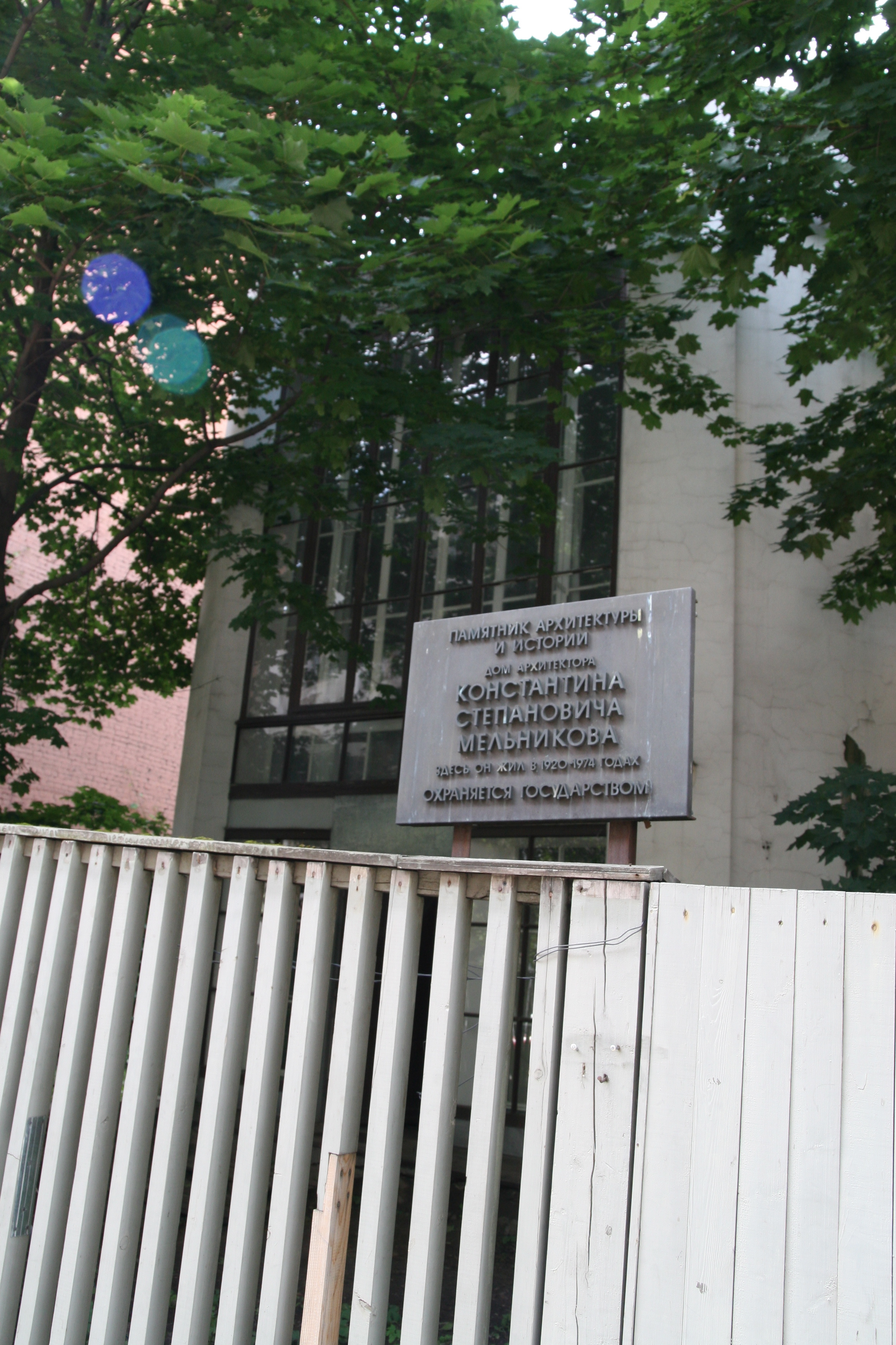 Melnikov House